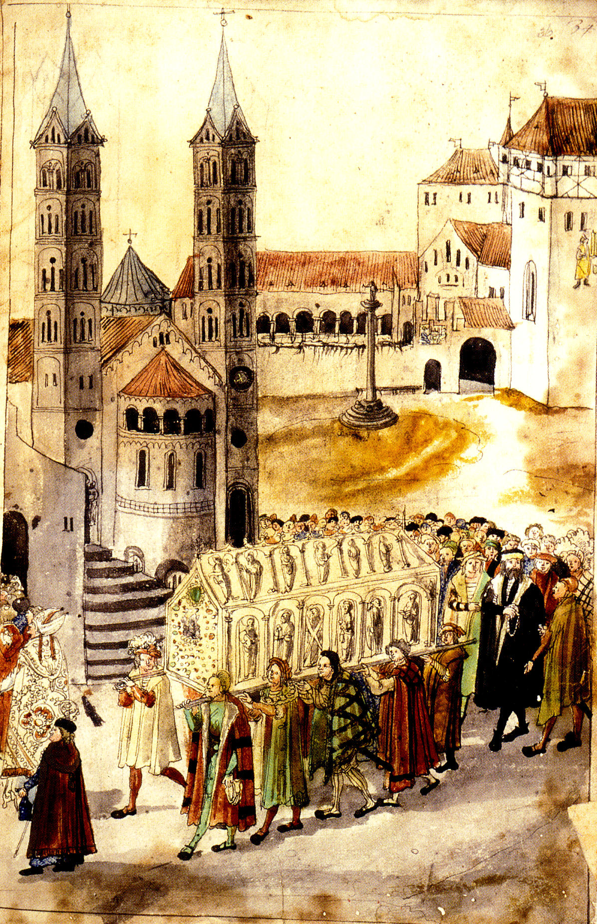 cathedral of Bamberg, Germany